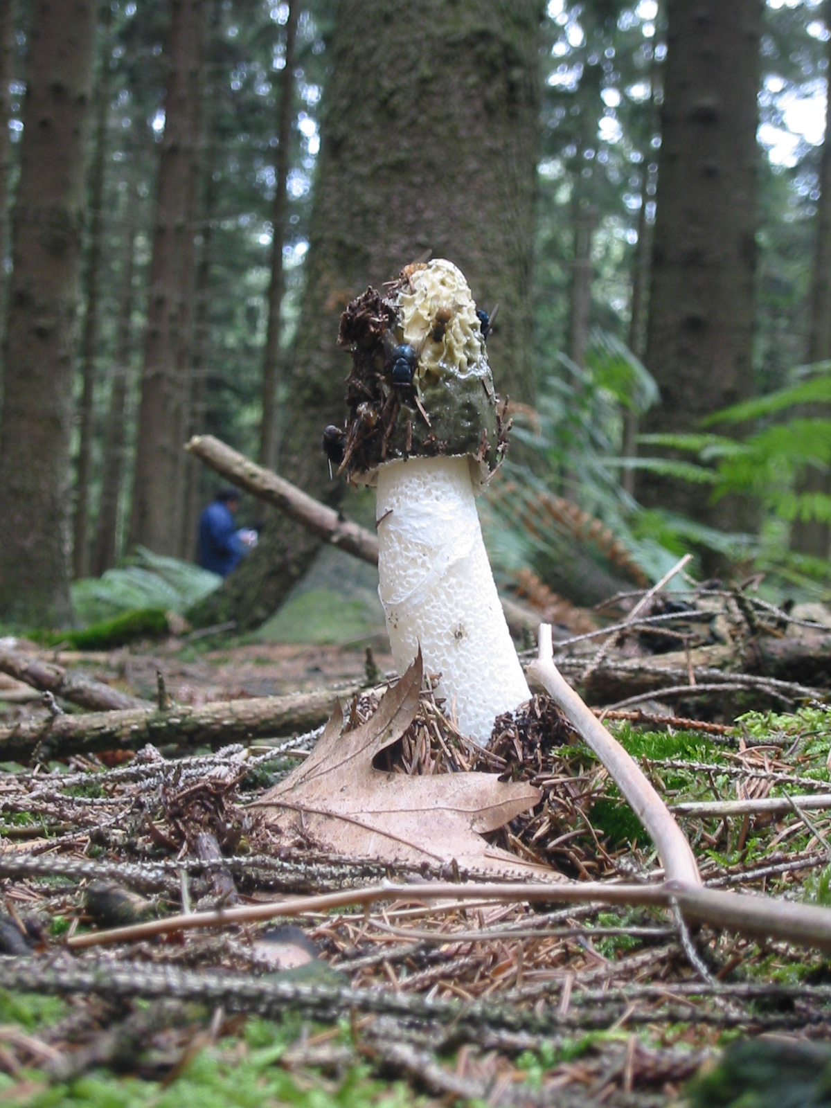 Phallus impudicus